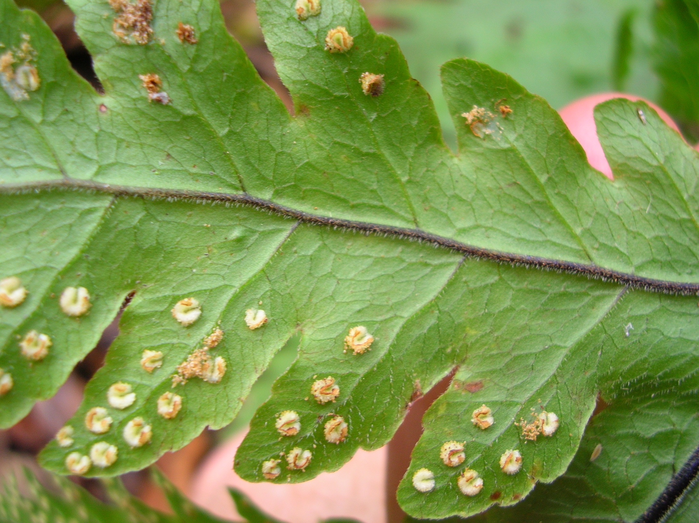 Tectaria gaudichaudii (sori). Location: Maui, Makawao Forest Reserve